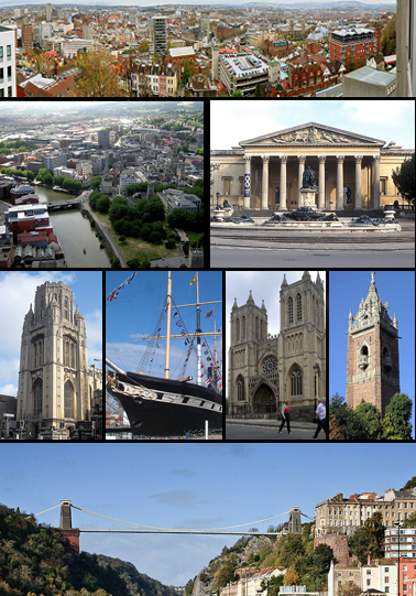 Photo montage of Bristol, England.